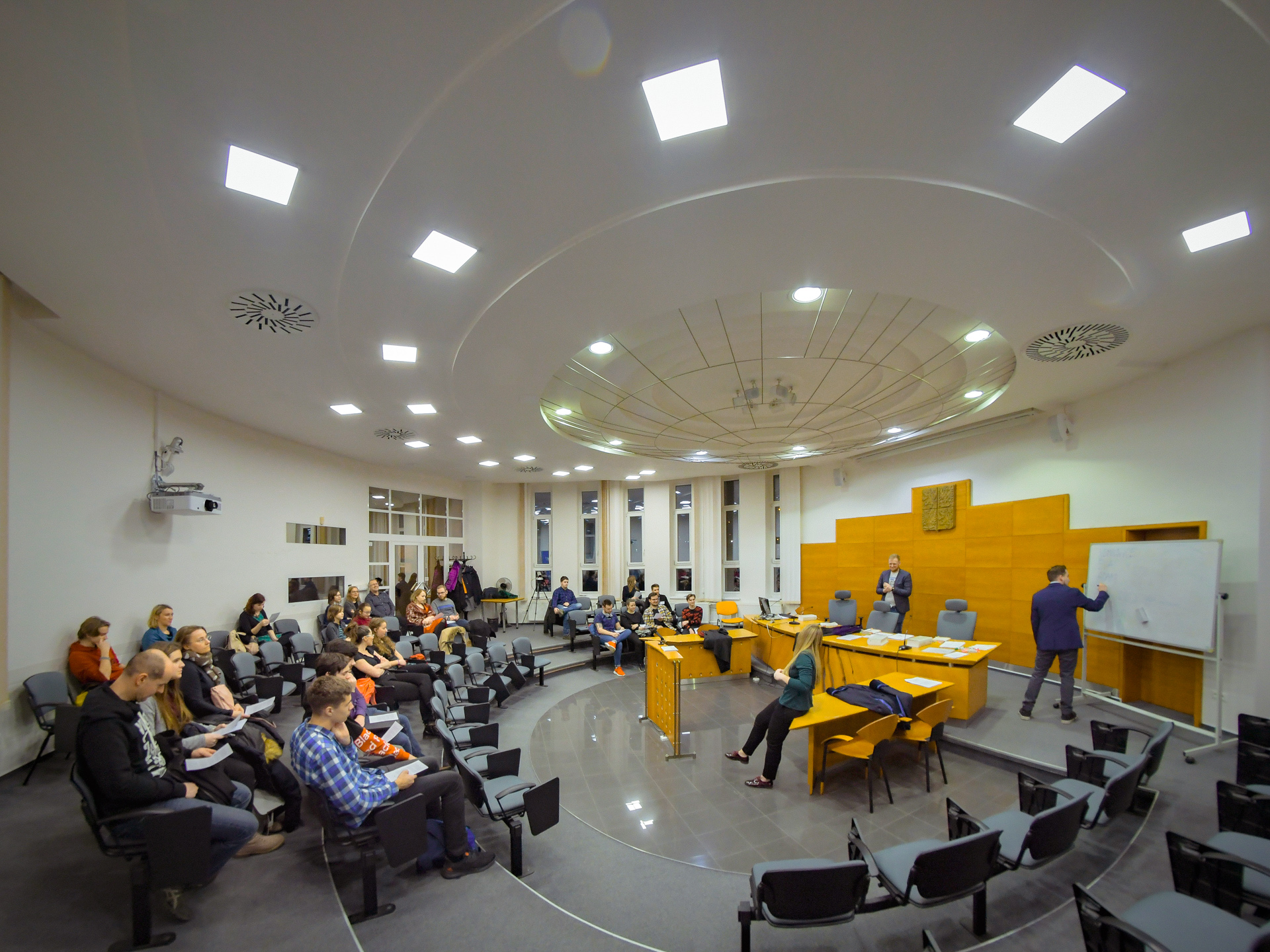 Simulated courtroom